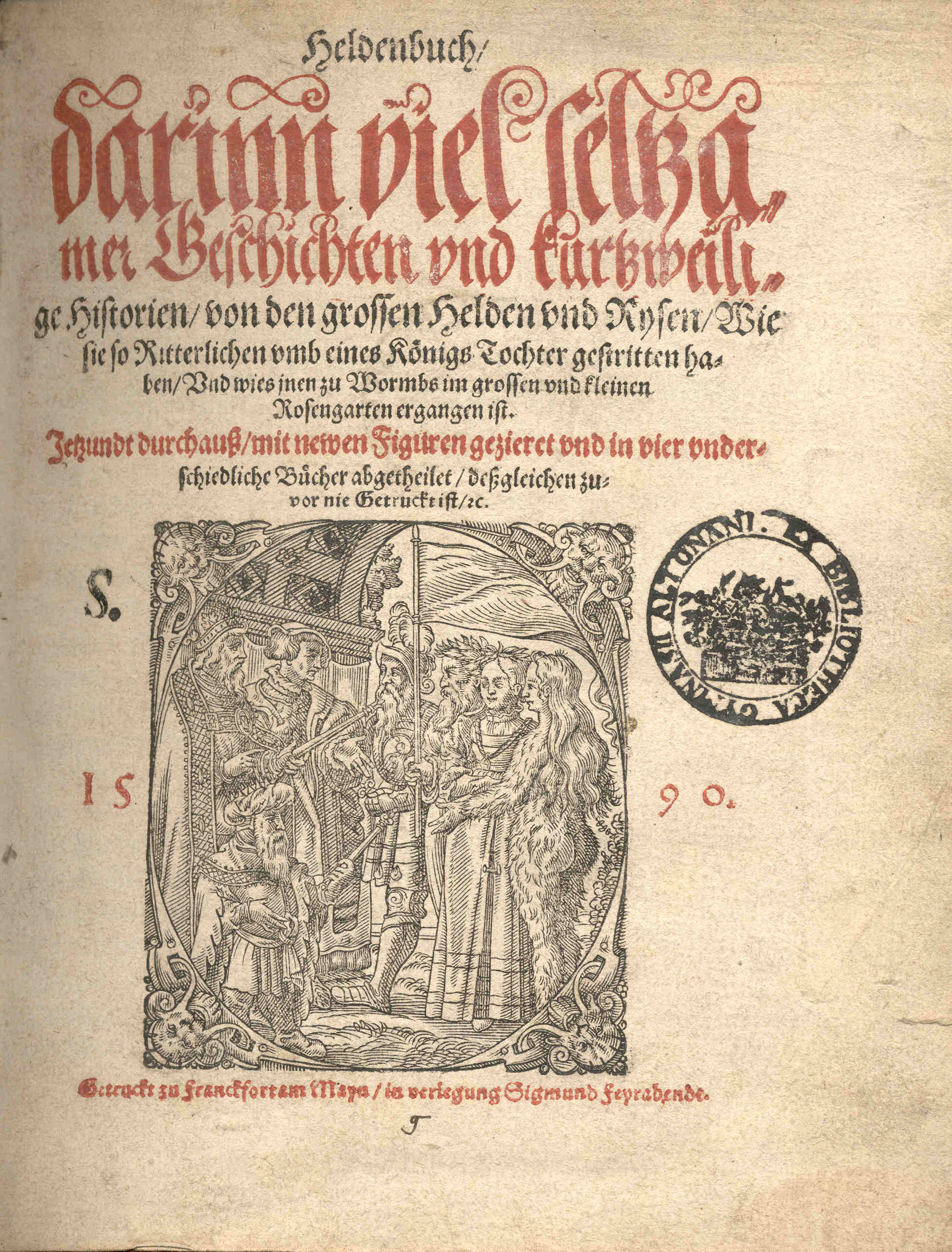 Title page of the 1590 edition of the Heldenbuch. Printed by Sigmund Feierabend in Frankfurt-am-Main, with woodcuts by Jost Amman and Virgil Solis. Library copy of the Gymnasium Christianeum in Hamburg.